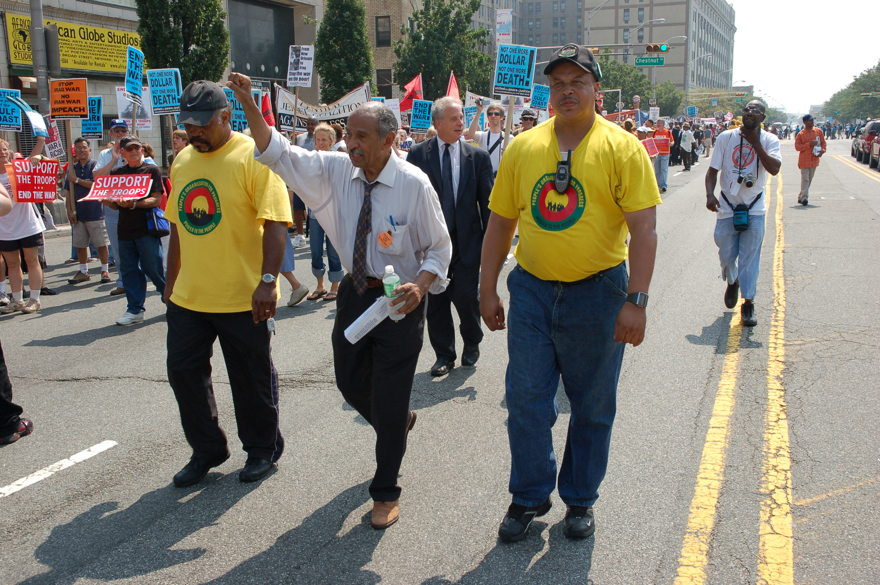 Congressman John Conyers (D, Michigan) at an anti-war march in Newark, New Jersey, 2007.